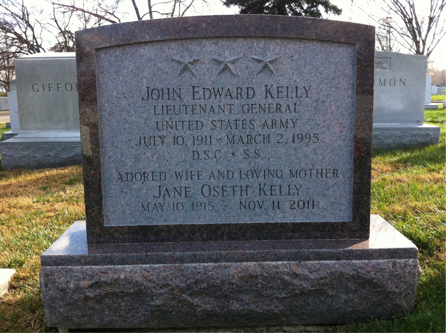 Grave of John Edward Kelly at Arlington National Cemetery More information